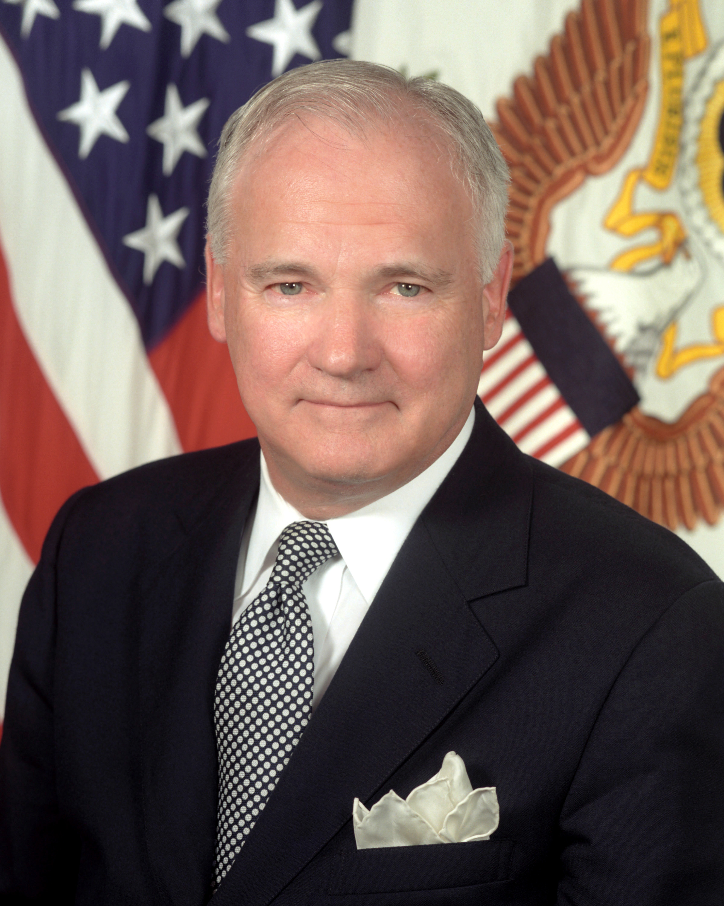 Mahlon Apgar, IV, Assistant Secretary of the Army for Installations and Environment, 1998-2001, Official Army portrait